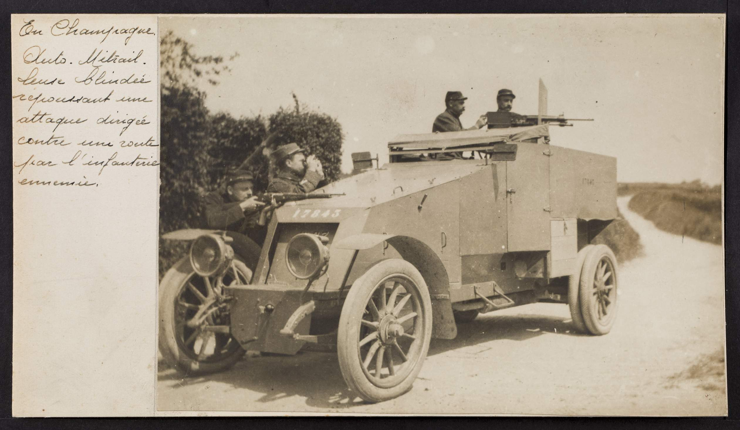 En Champagne. Auto-mitrailleuse blindée repoussant une attaque dirigée contre une route par l'infanterie ennemie.